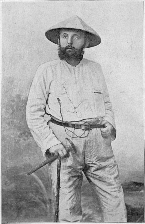 Picture was (among others) published in the feestbundel ter eere van Karl Martin in 1931. I scanned it.